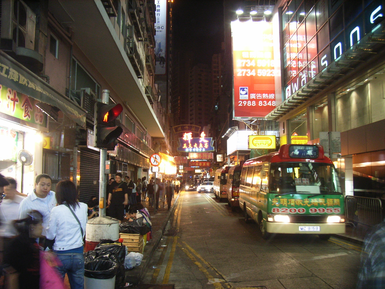 渣甸街, Jardine's Bazaar. Photo author is me.